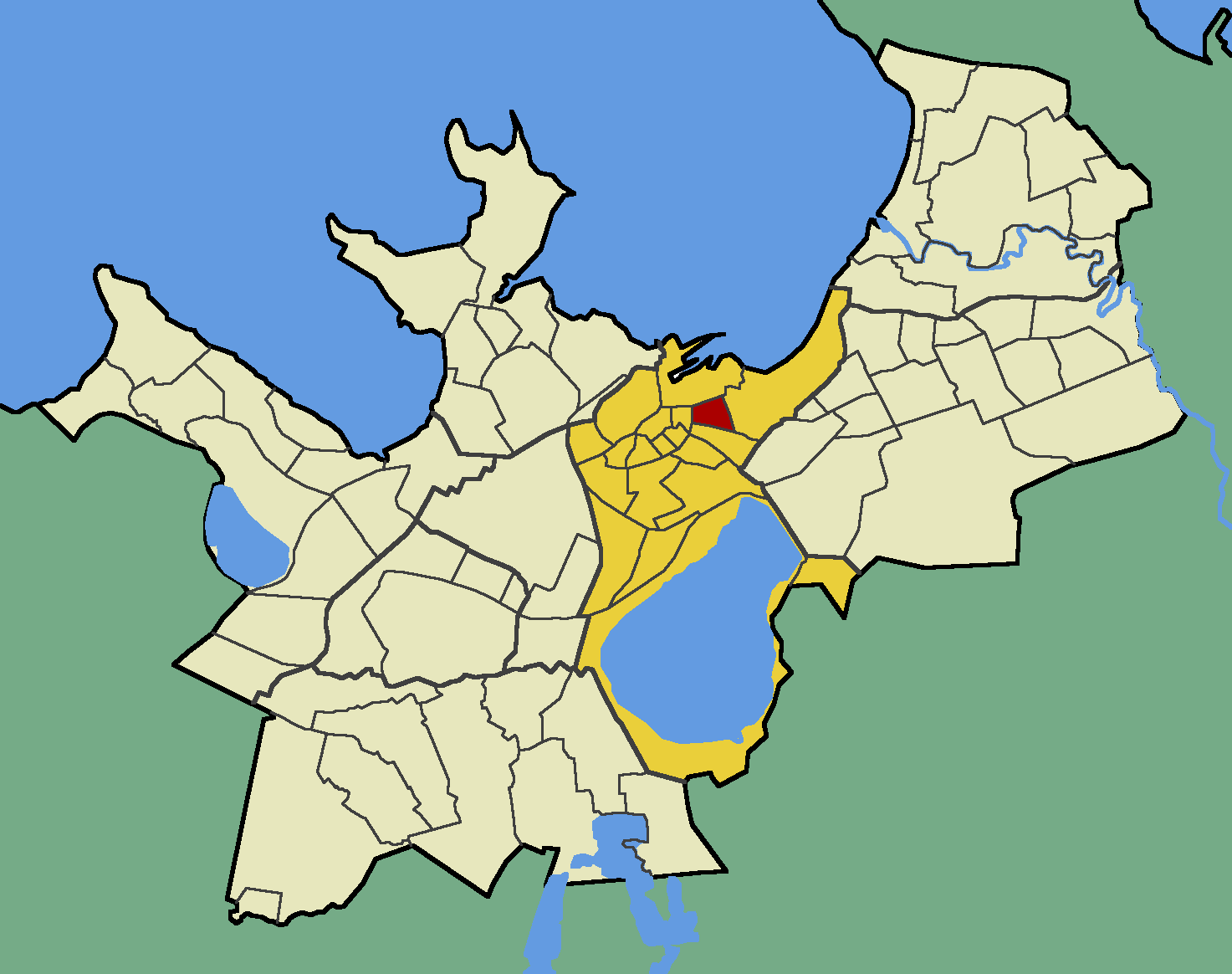 Map of Tallinn (Estonia) with borders of the quarters, Kesklinn district and Raua quarter emphasised